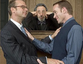 Photo Credit: George Schiavone